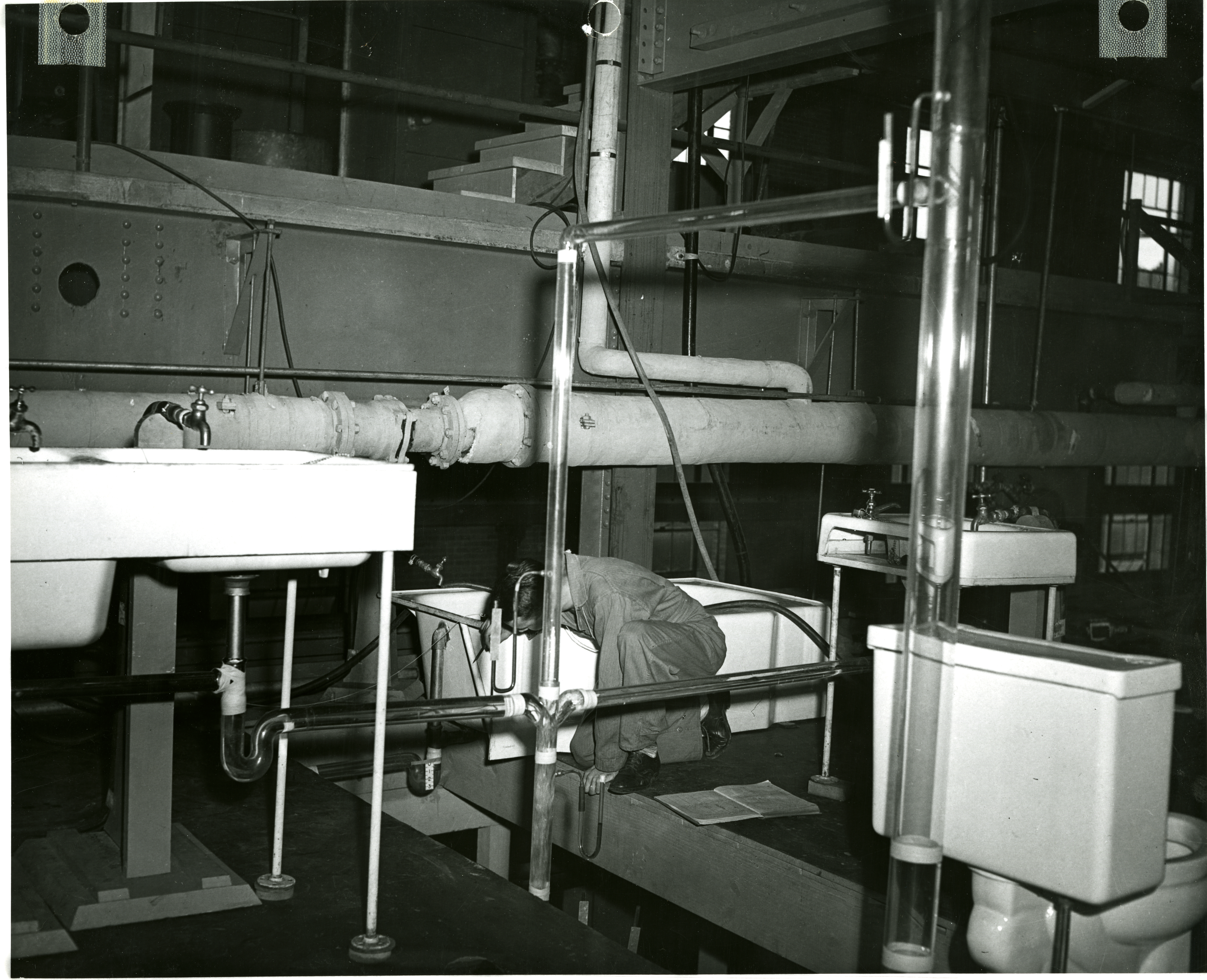 Flow conditions in a top floor wet vented bathtub trap. Hydraulic engineers at NBS cooperated with the Housing and Home Finance Agency's effort to develop a nationwide uniform plumbing code. To provide technical data on some of the problems involved, NBS erected in its Hydraulics Laboratory full-scale plumbing systems for one- and two-story duplex houses. These systems exactly duplicated ordinary home plumbing except in one important respect- the pipes and fittings (pictured) were made of transparent plastic. Research was directed toward solving some of the more controversial plumbing problems, which were attested to by the variance in plumbing code requirements in municipalities throughout the United States. Motion pictures were made of the important tests so that local groups would have visual facts to work with when plumbing code revision was considered.